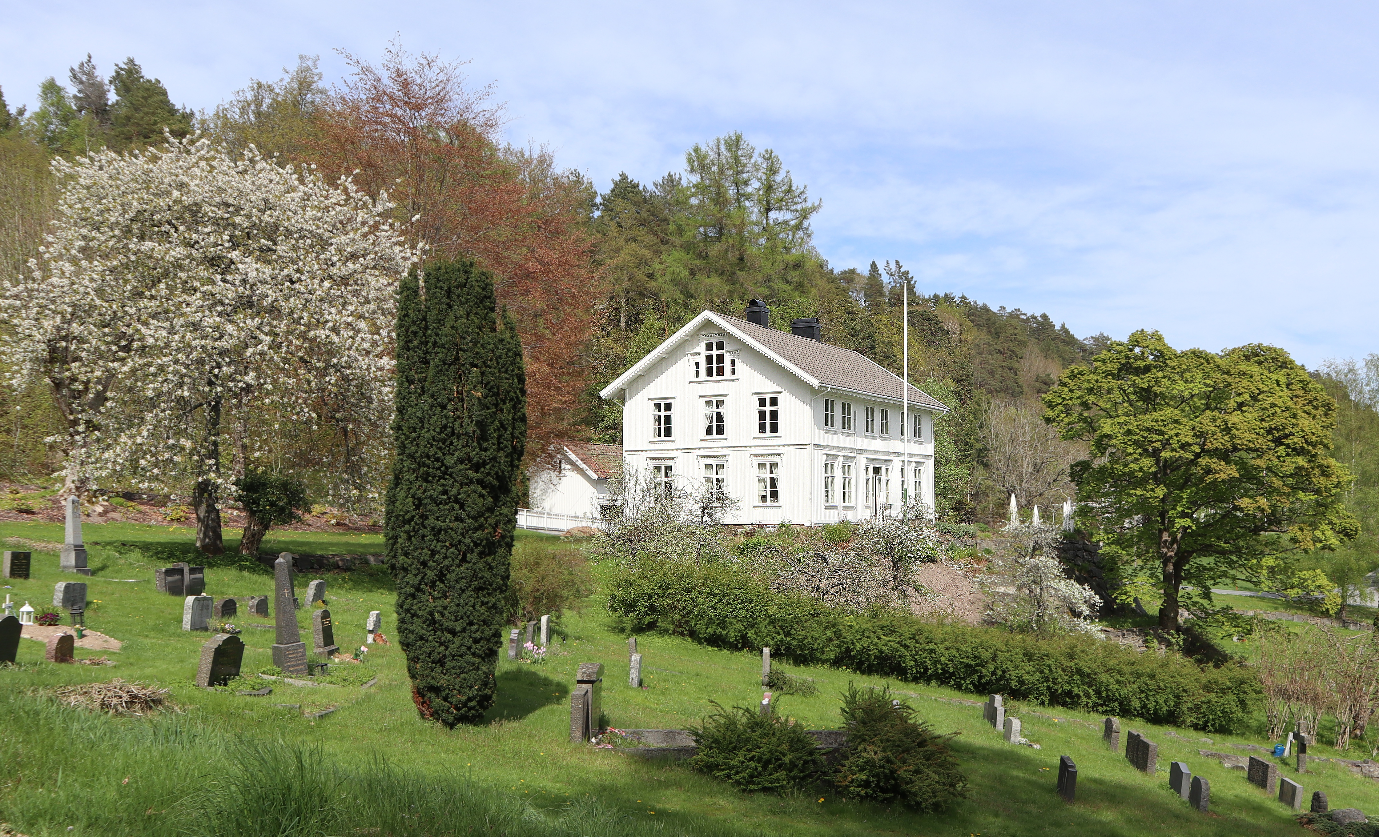 Dypvåg prestegård inTvedestrand muncipality. Protected by law.